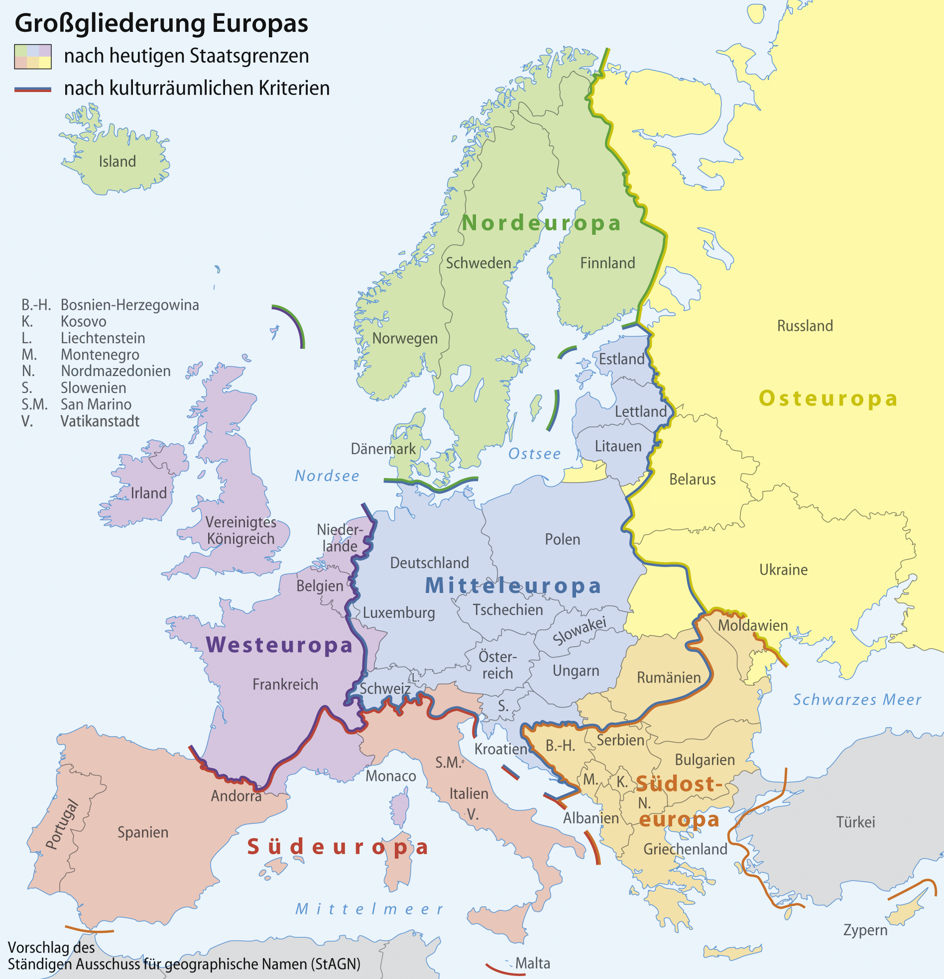 European regions as proposed by Ständiger Ausschuss für geographische Namen (StAGN)